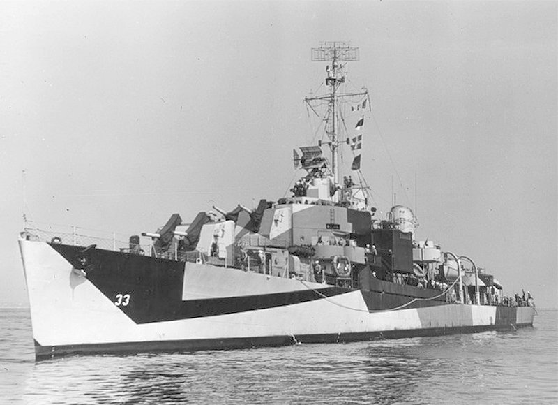 The U.S. Navy light minelayer USS Gwin (DM-33) in 1944. Gwin was built at Bethlehem Shipbuilding Corporation, San Pedro, California (USA), and commissioned on 30 September 1944.